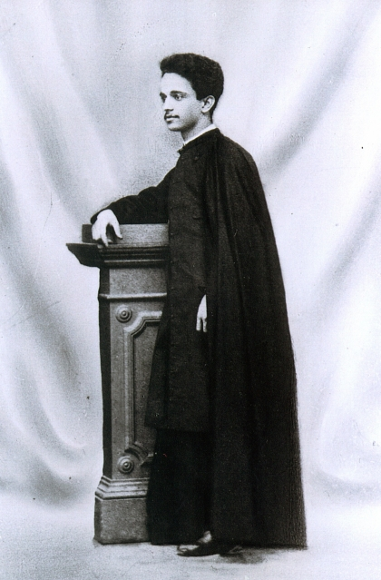 Bernardino Machado as a University of Coimbra student, c. 1866-1875.